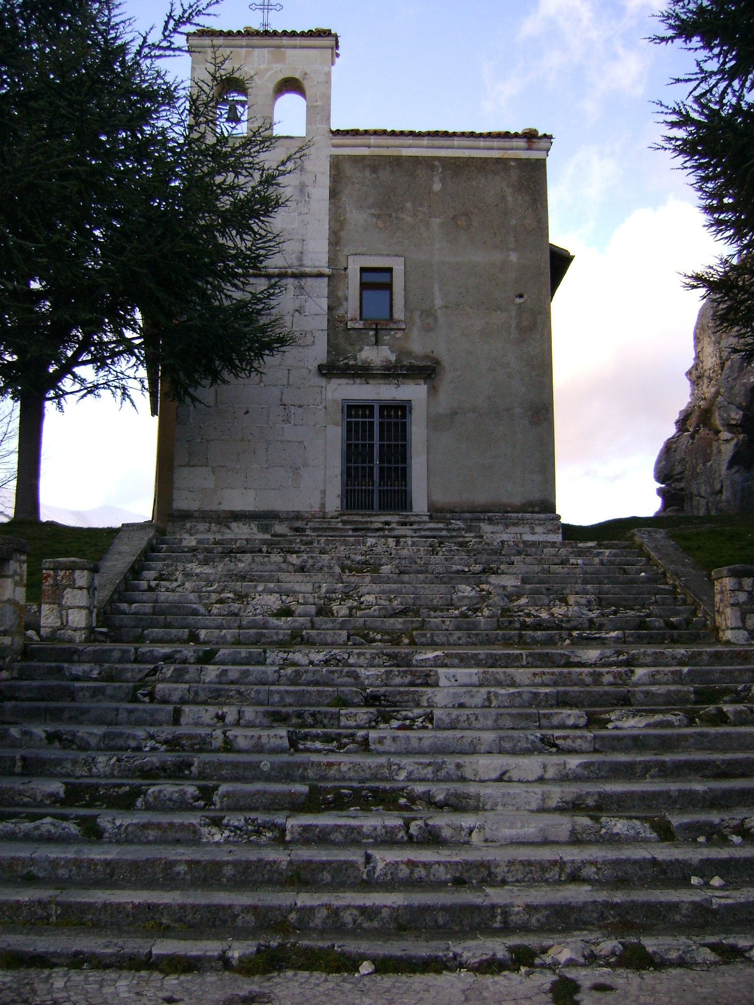 The church of Sant'Antonio Abate, a Pescocostanzo, province of L'Aquila, Abruzzo